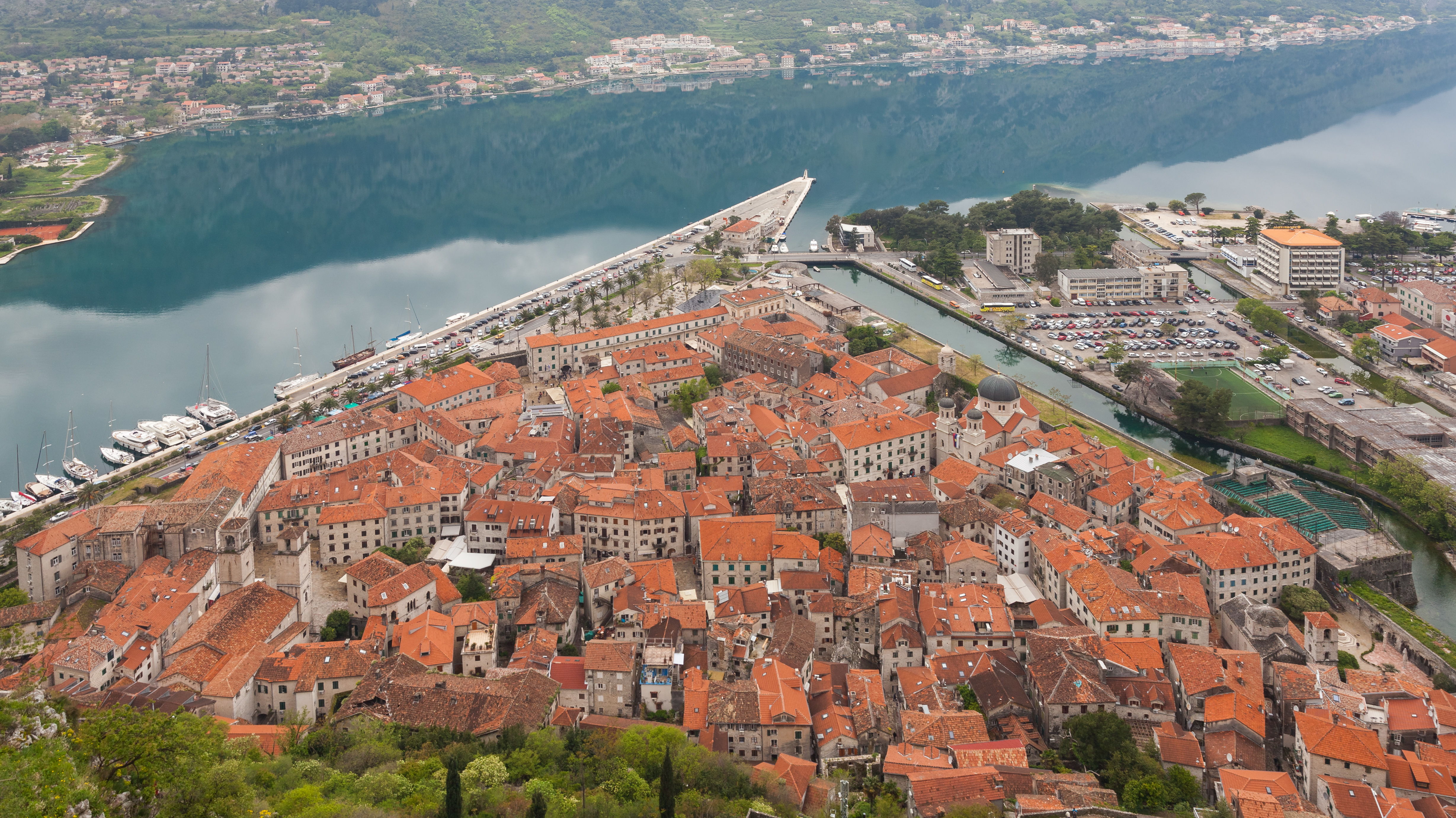 View of Kotor, Bay of Kotor, Montenegro